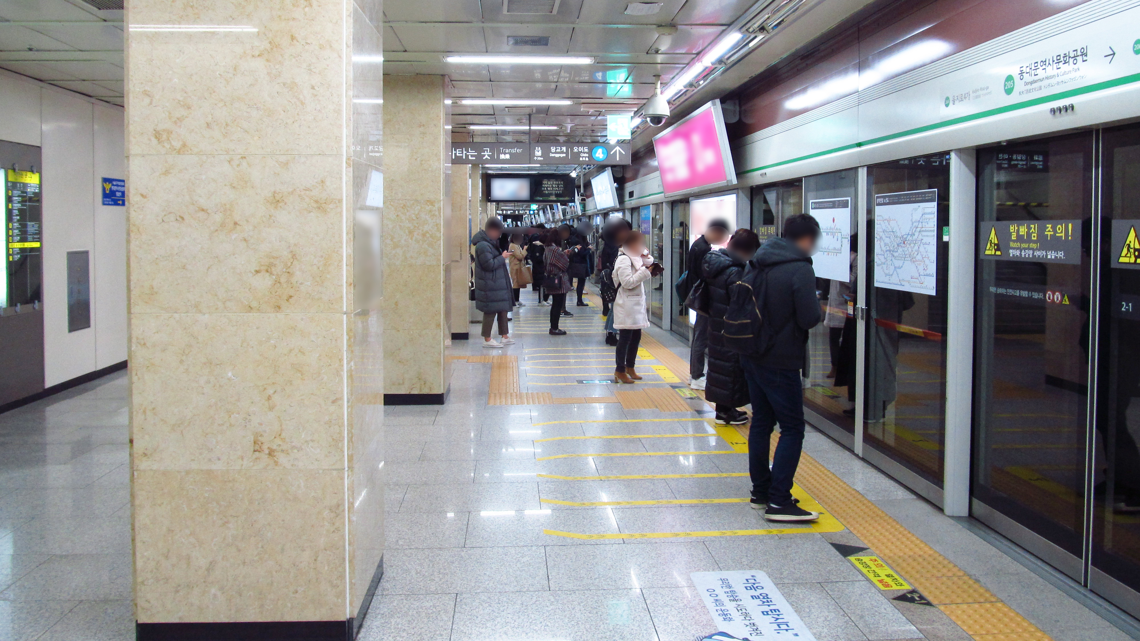 The platform at Dongdaemun History & Culture Park Station on Seoul Subway Line 2 in Jung-gu, Seoul, Republic of Korea(South Korea)